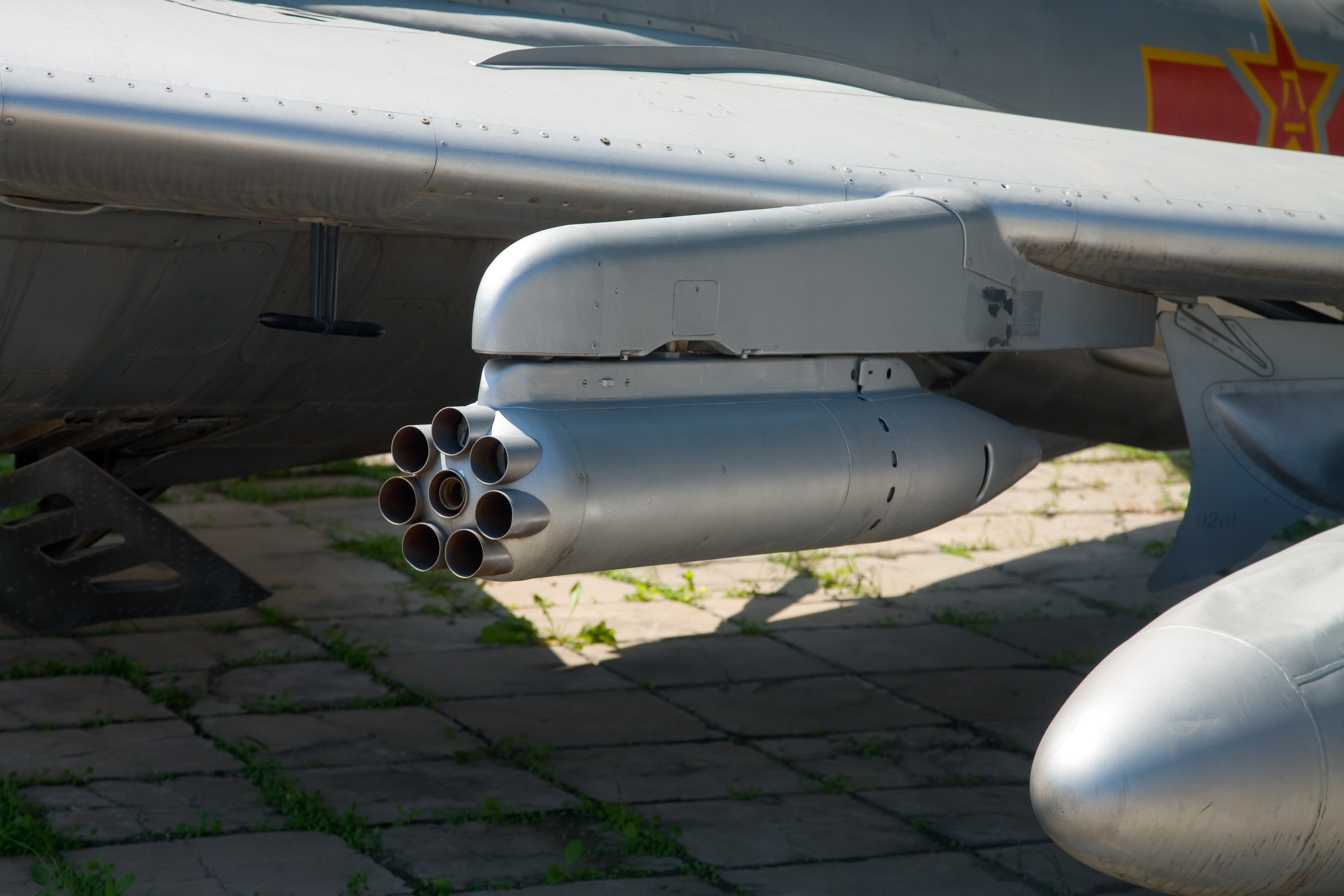 F-6 with underwing 57 mm rocket pod ORO-57K for S-5 rockets at the China Aviation Museum